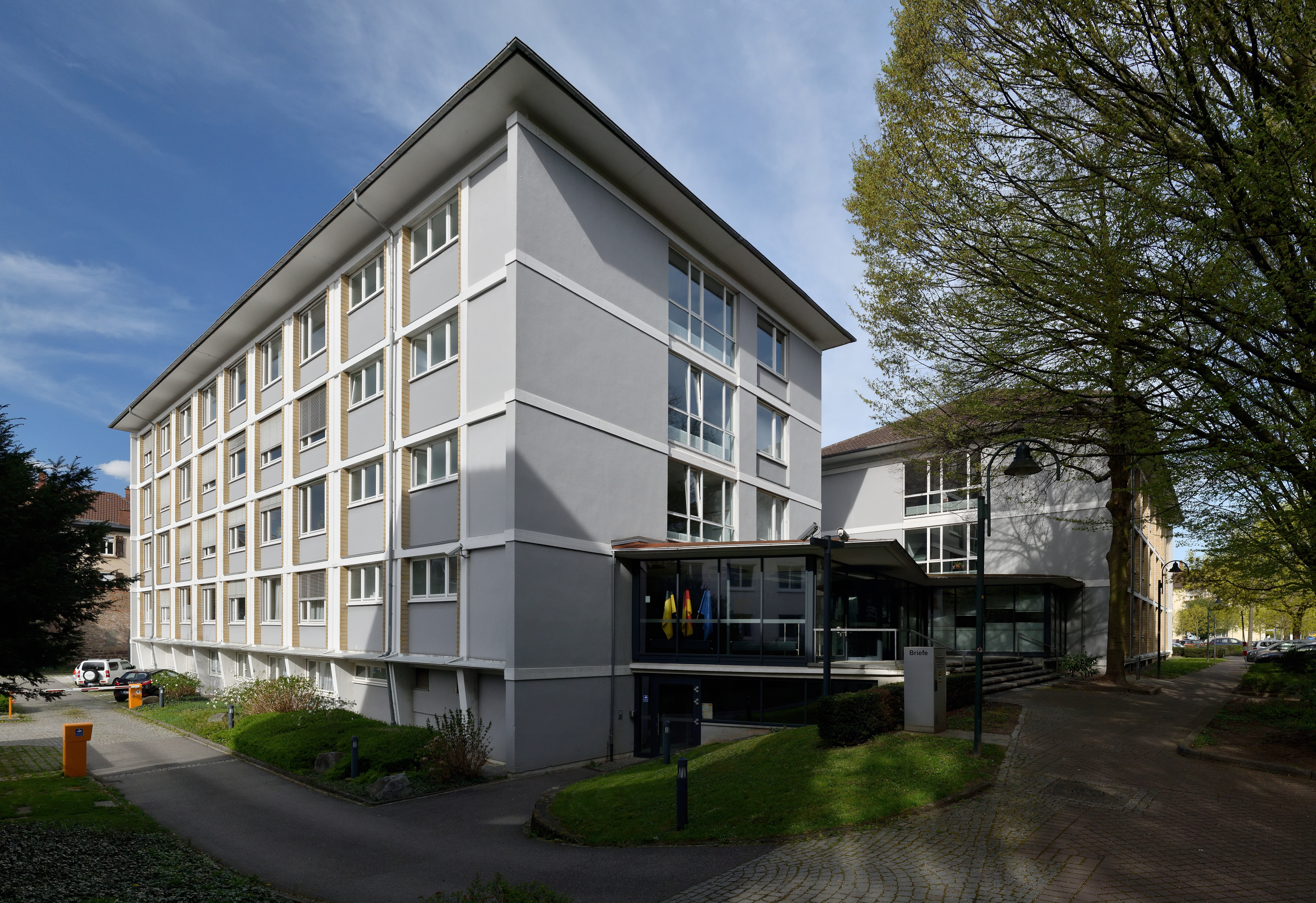 Offenburg: court